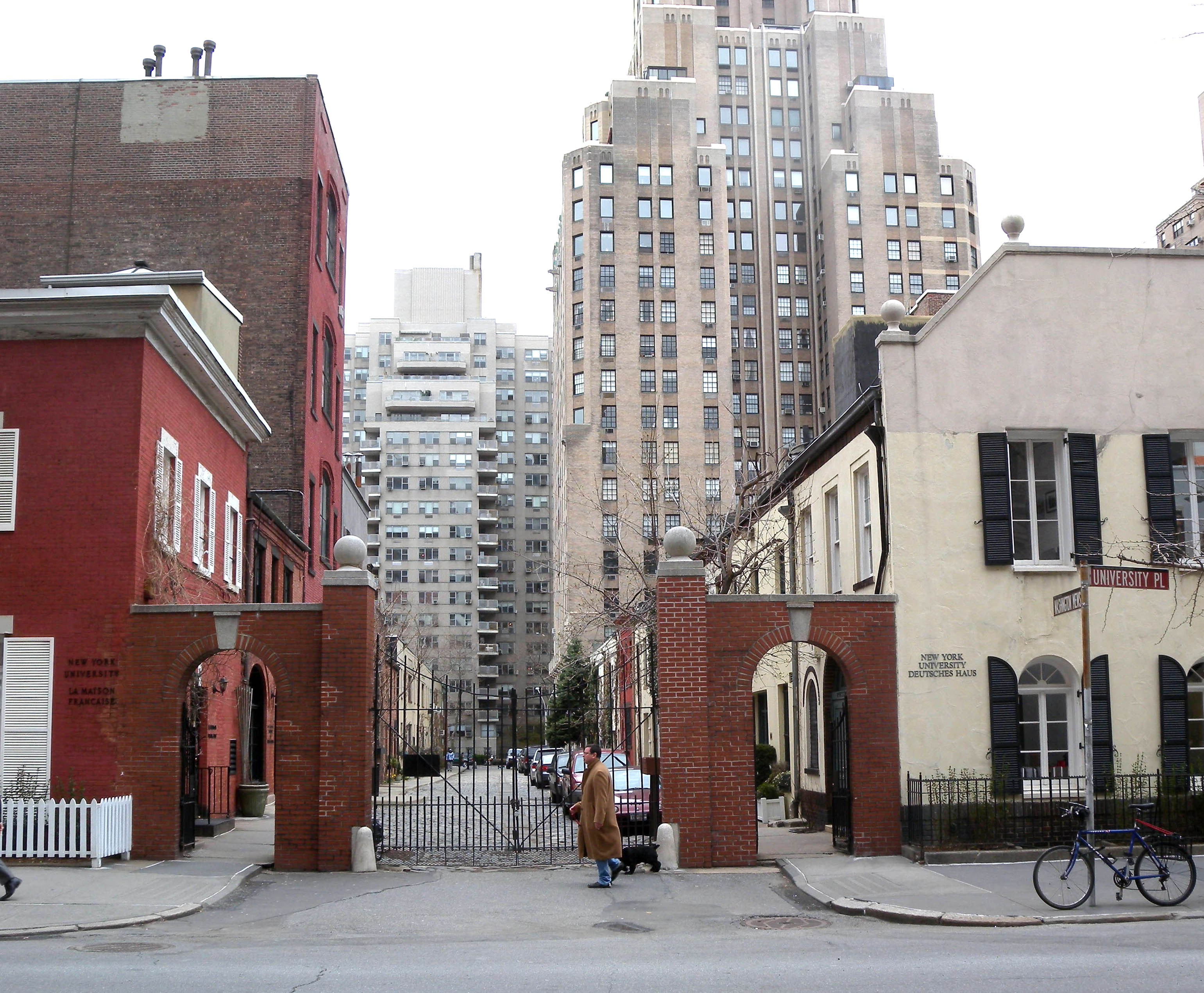 Looking west across University Place at Washington Mews on a cloudy afternoon.